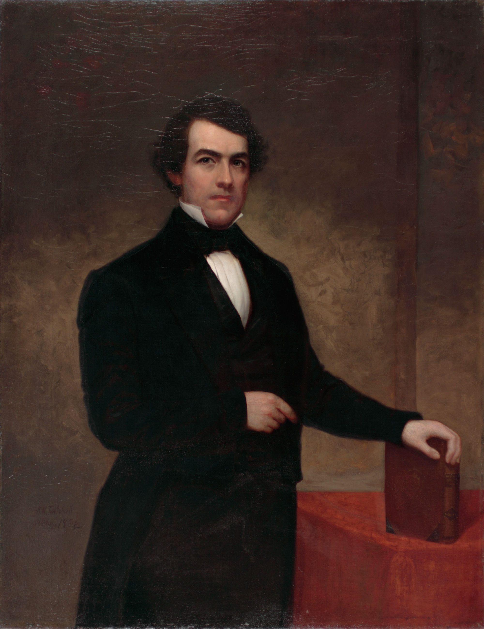 Official Gubernatorial portrait of New York Governor Washington Hunt (1811-1867)